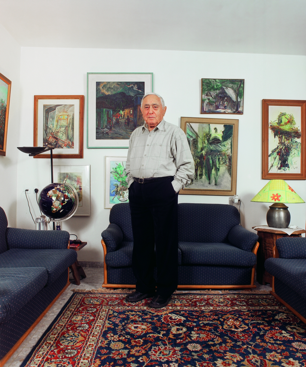 Art of Israel